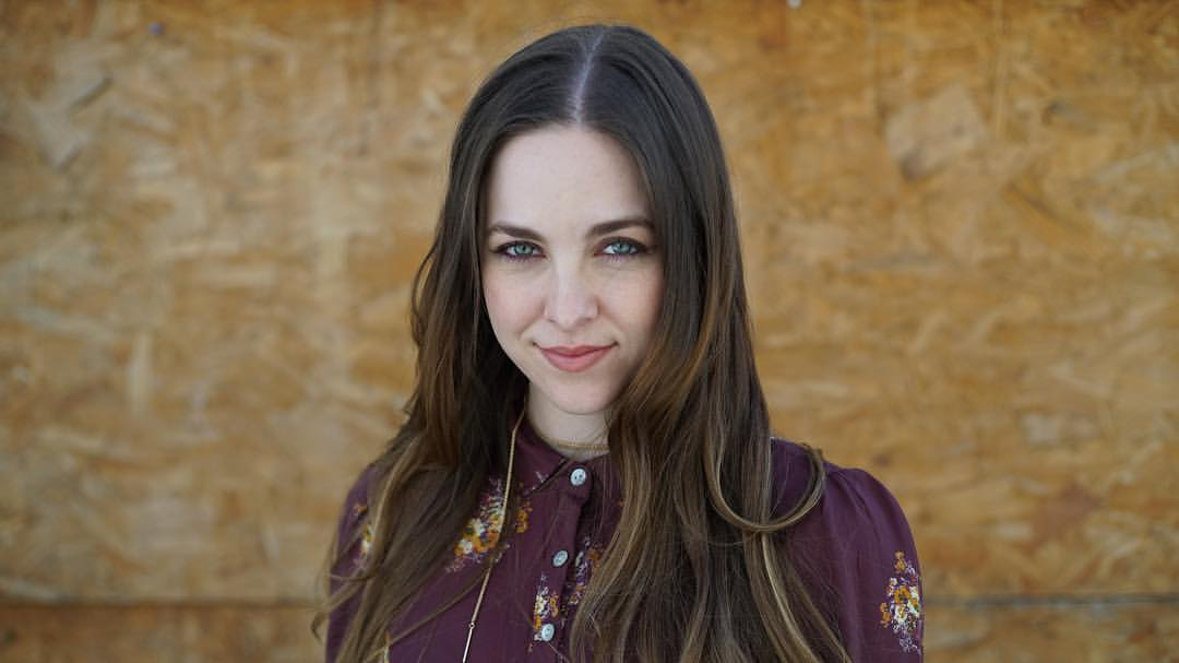 Actress Brittany Curran